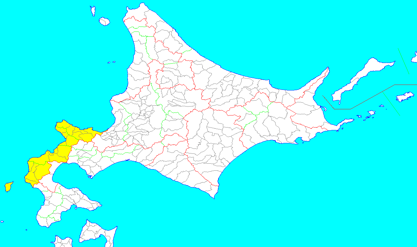 area of Shiribeshi provinces of Hokkaido in Japan(1869/08/15)